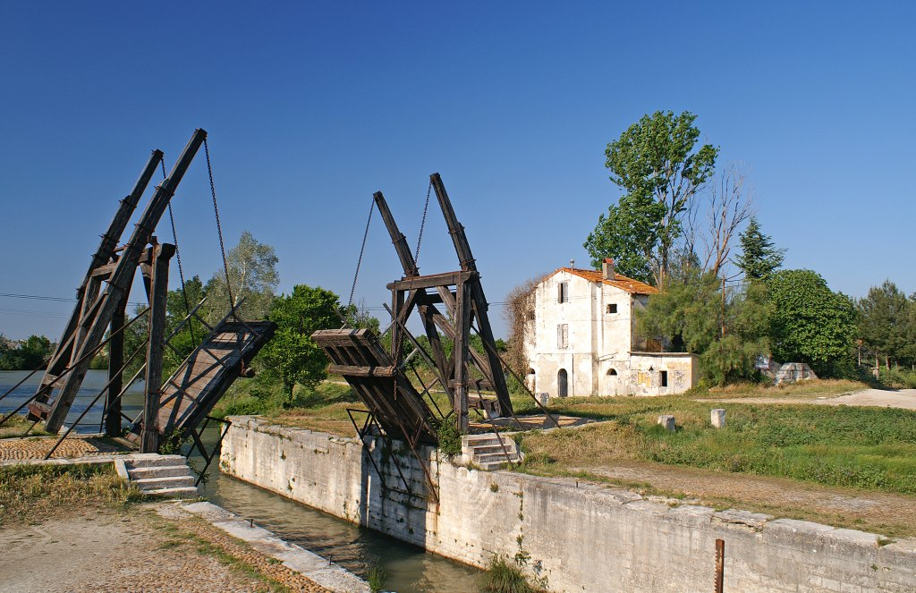 Replica of the Langlois bridge near Arles, France, which was painted by Van Gogh more than once. The replica is another bridge of same series, from Fos-sur-Mer, which was set up in 1962, two kilometers south of the original's location. It was completely restored in 1997. The original bridge was popular under the name of its long-time keeper Langlois. Van Gogh misunderstood that name and interpreted it as l'Anglais. (Englishmen's bridge).